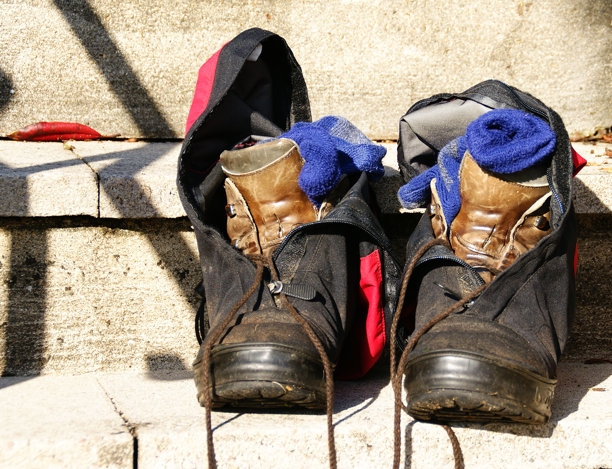 Some old friends, taken for a project I am doing at the moment. They are Scarpa leather boots which have Berghaus Yeti gaiters on (no longer made) which effectively make the boots completely waterproof almost to knee height.